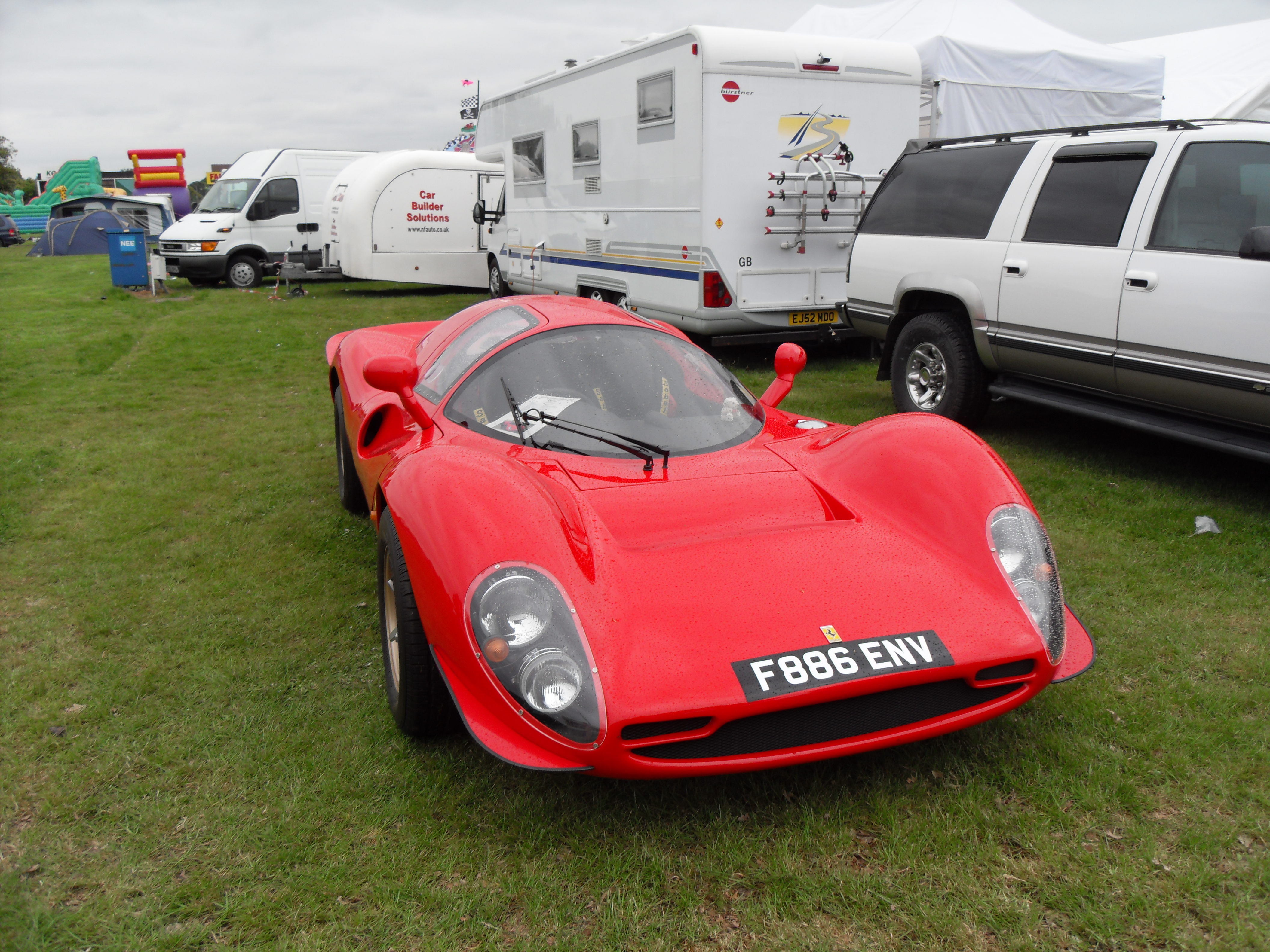 VLUU L310 W / Samsung L310 W taken at The National Kit Car Show Stoneleigh 2009